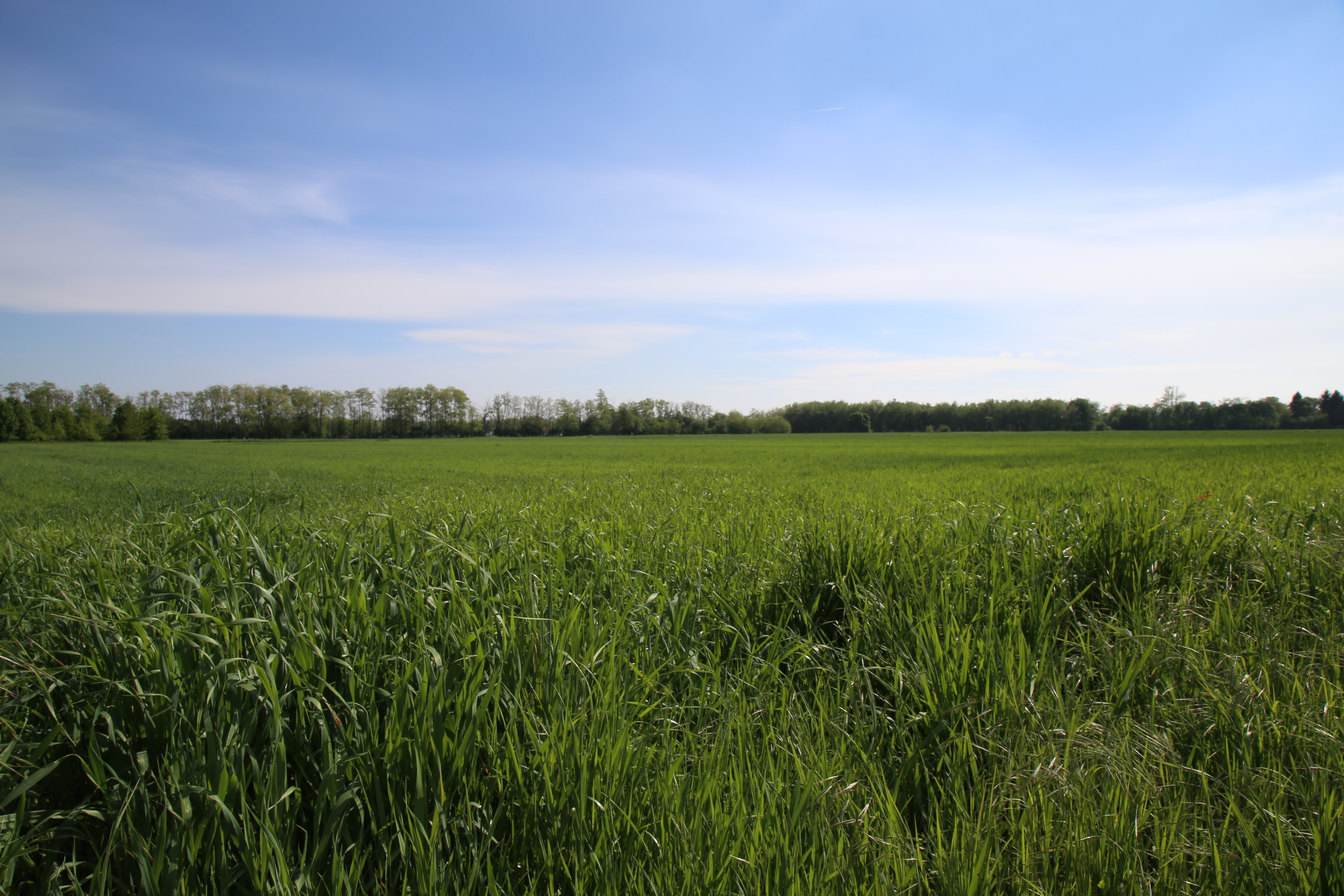 Agricultural field near the "Fratelli Di Dio" entrance to Parco Alto Milanese, Legnano, Lombardy, Italy, May 2nd, 2015